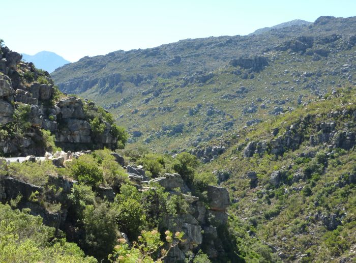 Bain's kloof pass, South Africa